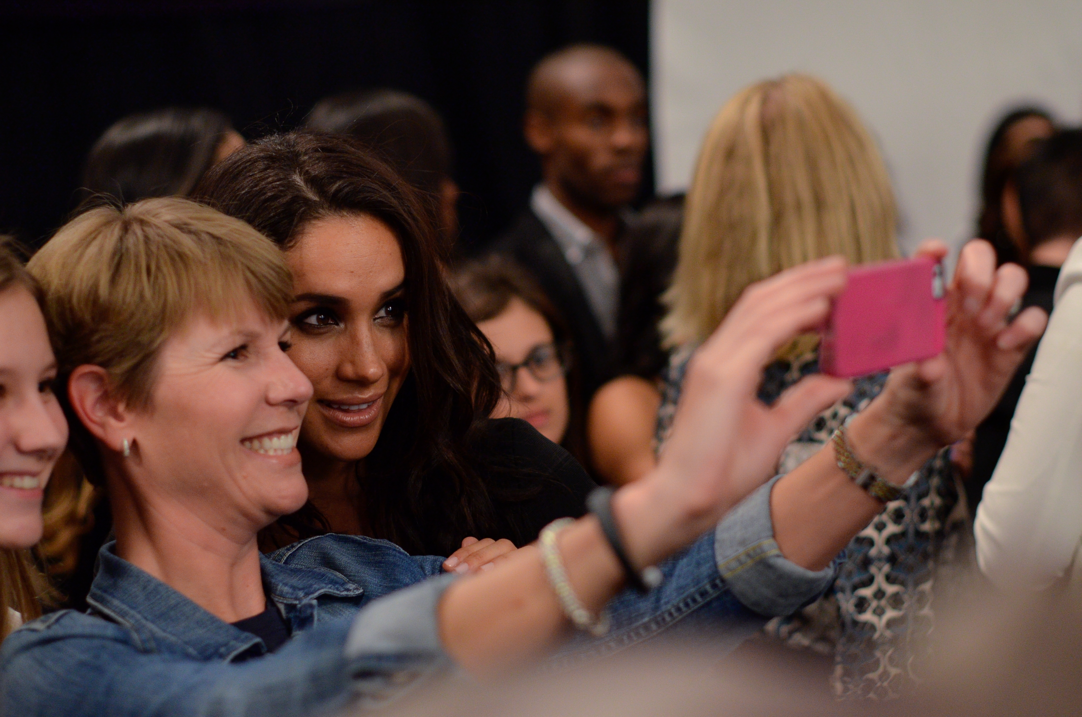 photography by Christopher Macsurak